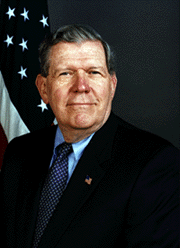 James Andrew Kelly - former Assistant U.S. Secretary of State for East Asian and Pacific Affairs (2001-2005).